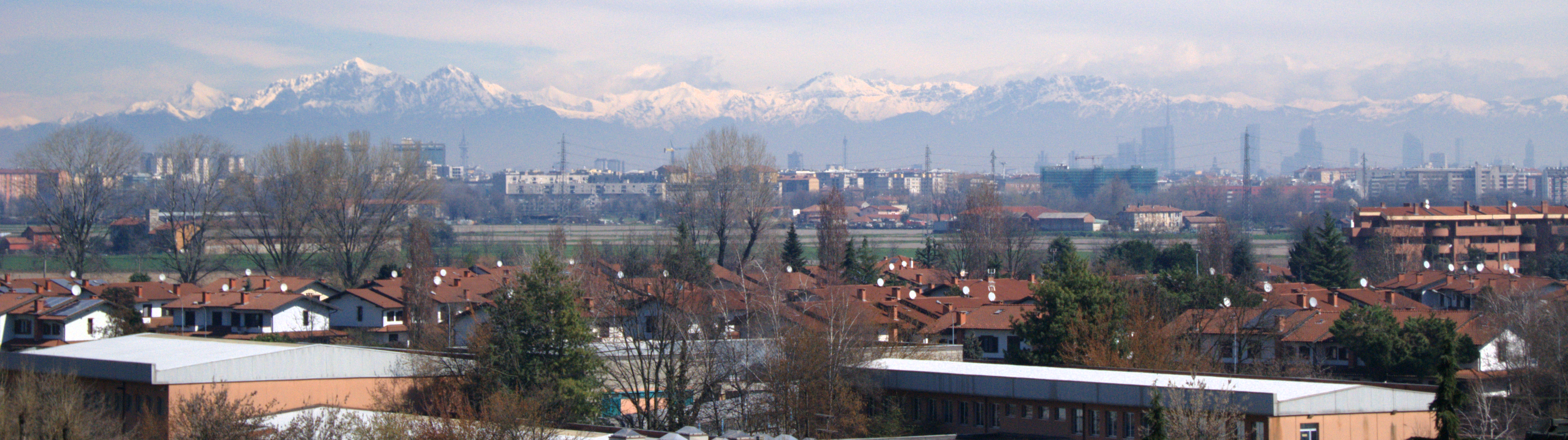 Assago